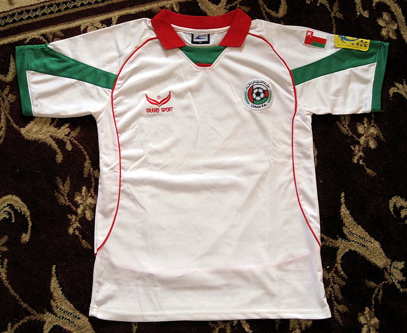 Grand Sport's away jersey of the Oman national football team in 2004/2005. The jersey was used during Oman's run in the 2004 Arabian Gulf Cup in Doha, Qatar.